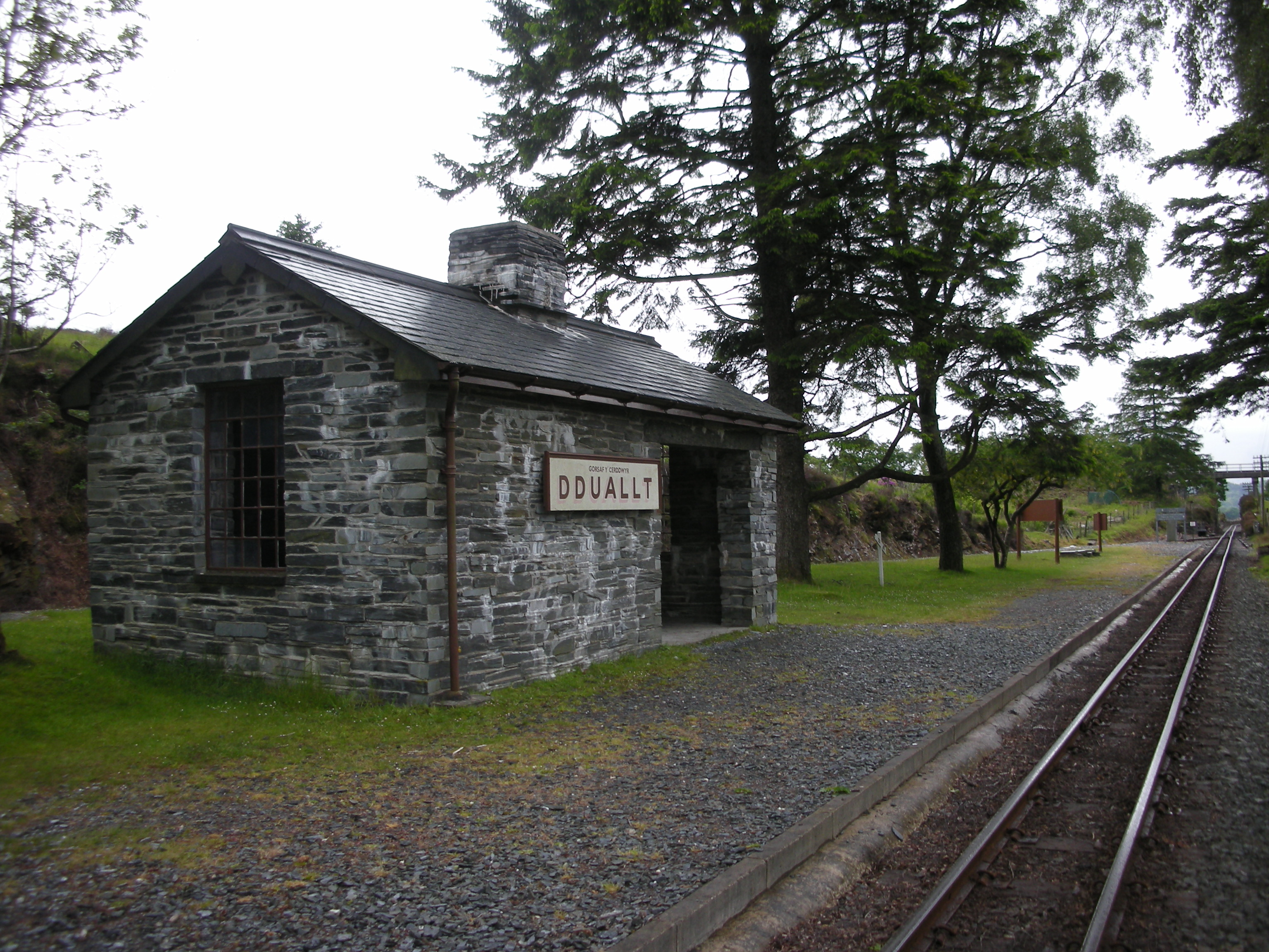 Dduallt railway station of the Ffestiniog Railway in 2007.